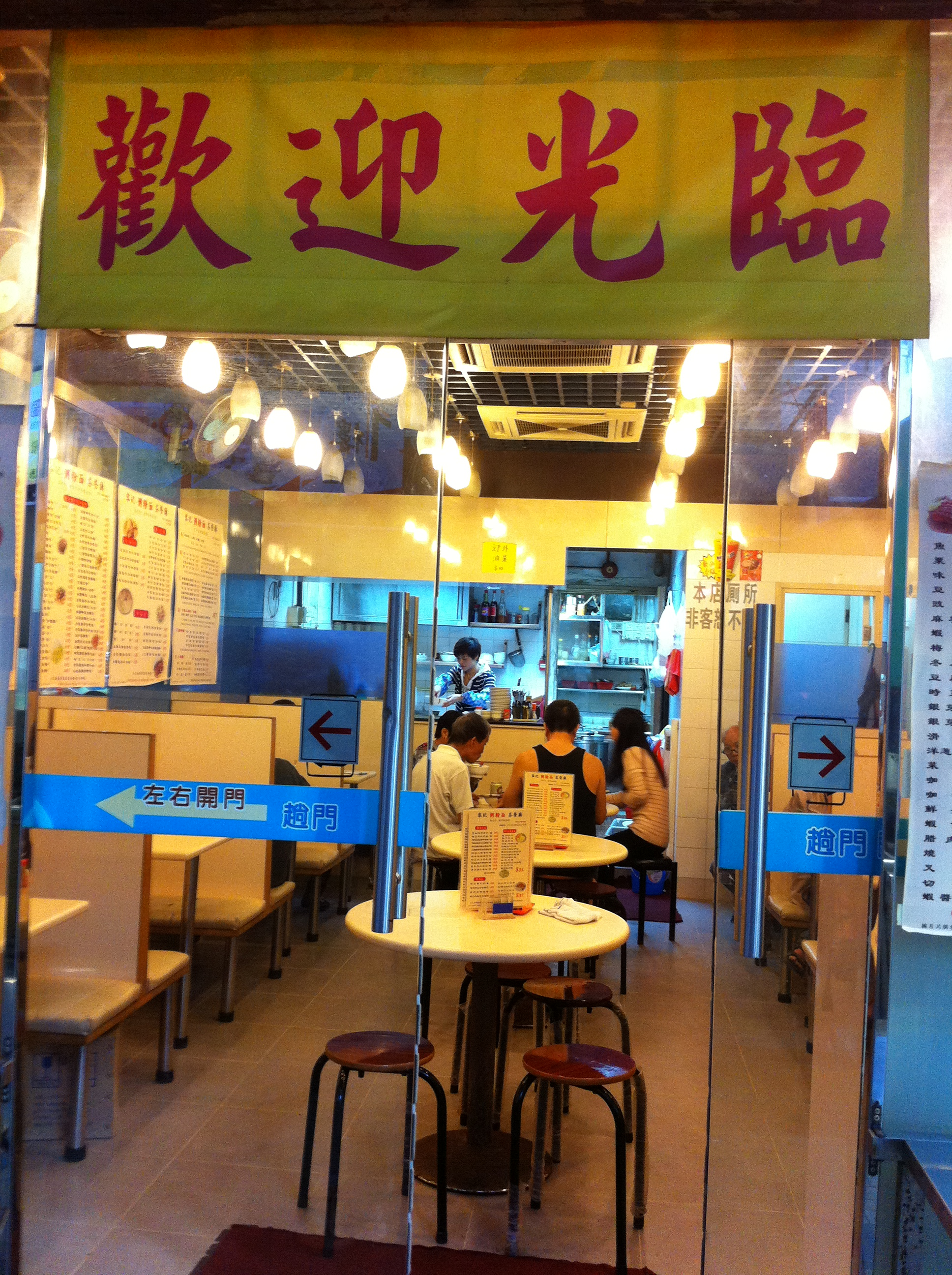 桂林街, Kweilin Street, Apliu Street, Sham Shui Po, Hong Kong